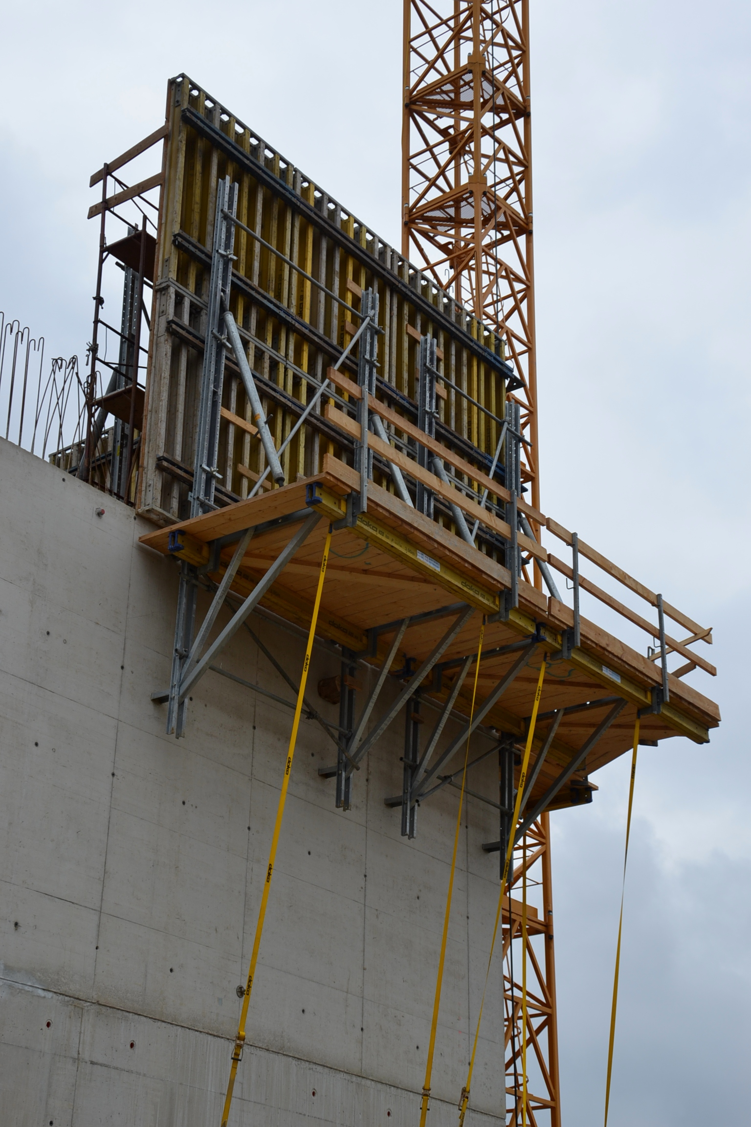 Formwork, Biomass Power Plant Steyr, company: Bioenergie Steyr